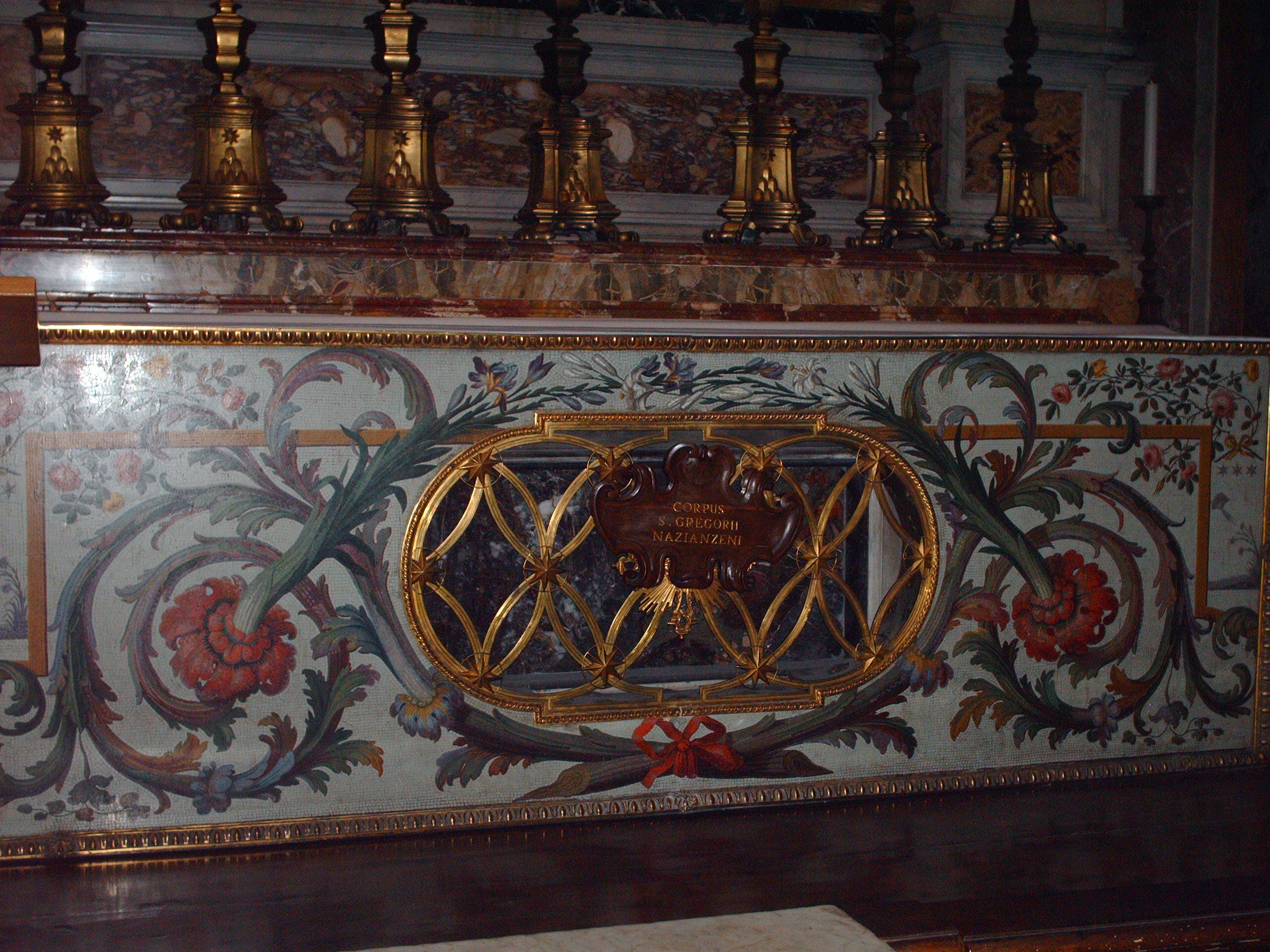 tomb of Saint Gregory of Nazianzus, Basilica di San Pietro; empty from 2004 (returned to Costantinople by pope G. P. II)